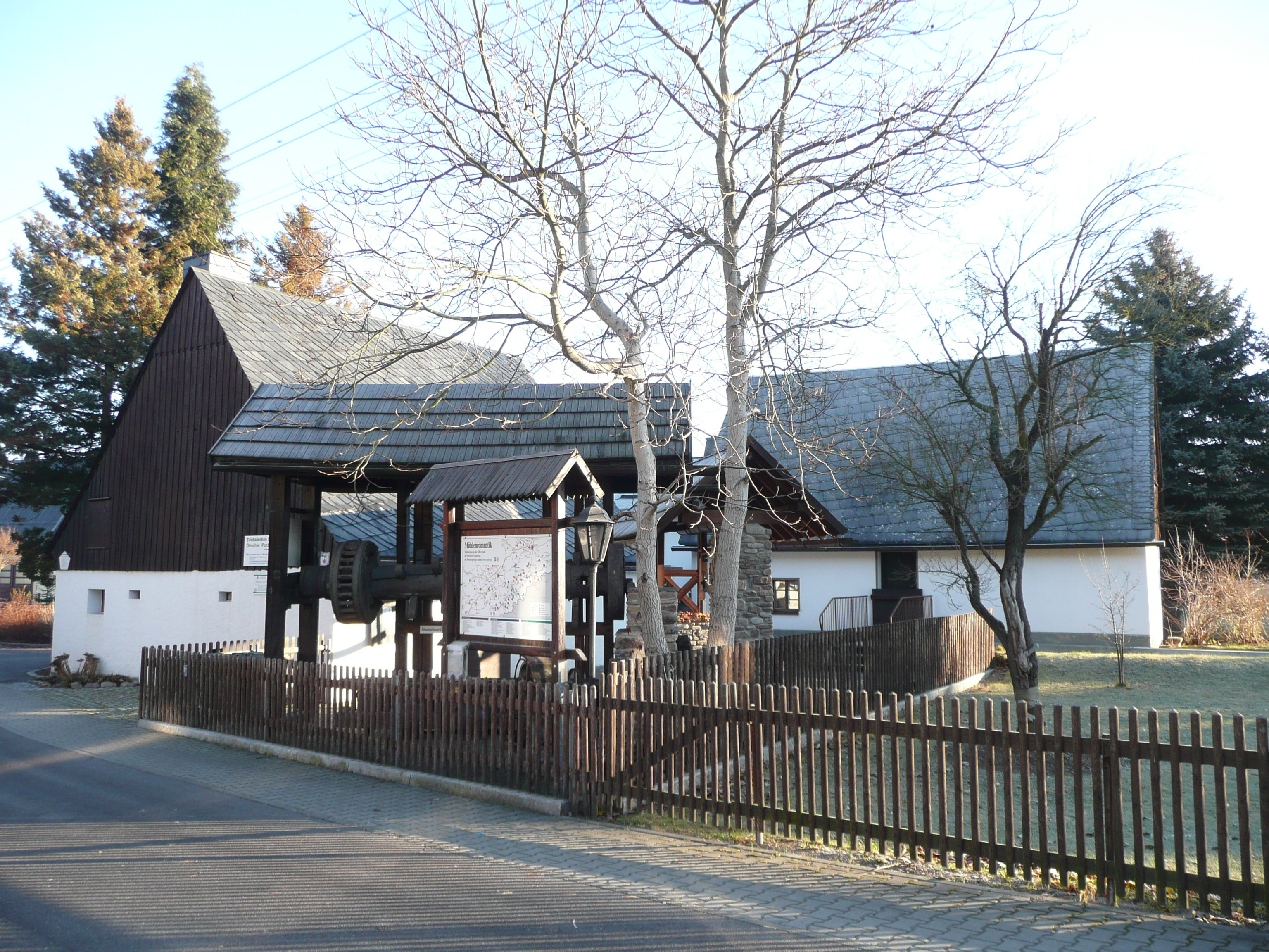 oil mill in Pockau (Erzgebirge)